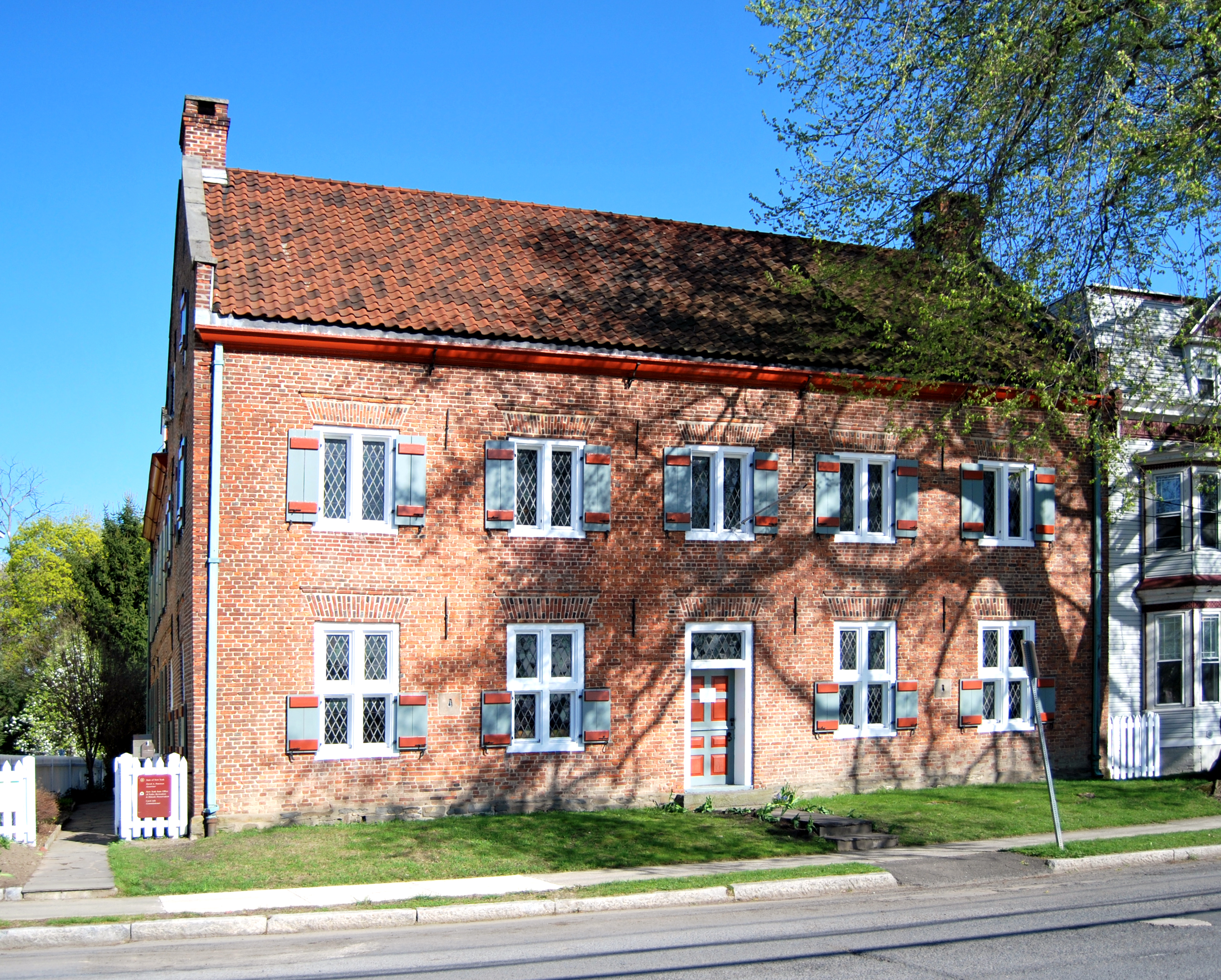 Fort Crailo, the manor house of the Manor of Rensselaerswyck, was built around 1712 and is reportedly the place where a member of the British Army wrote the song Yankee Doodle in 1755. The building became a National Historic Landmark in 1961. It is located in Rensselaer, New York, United States.